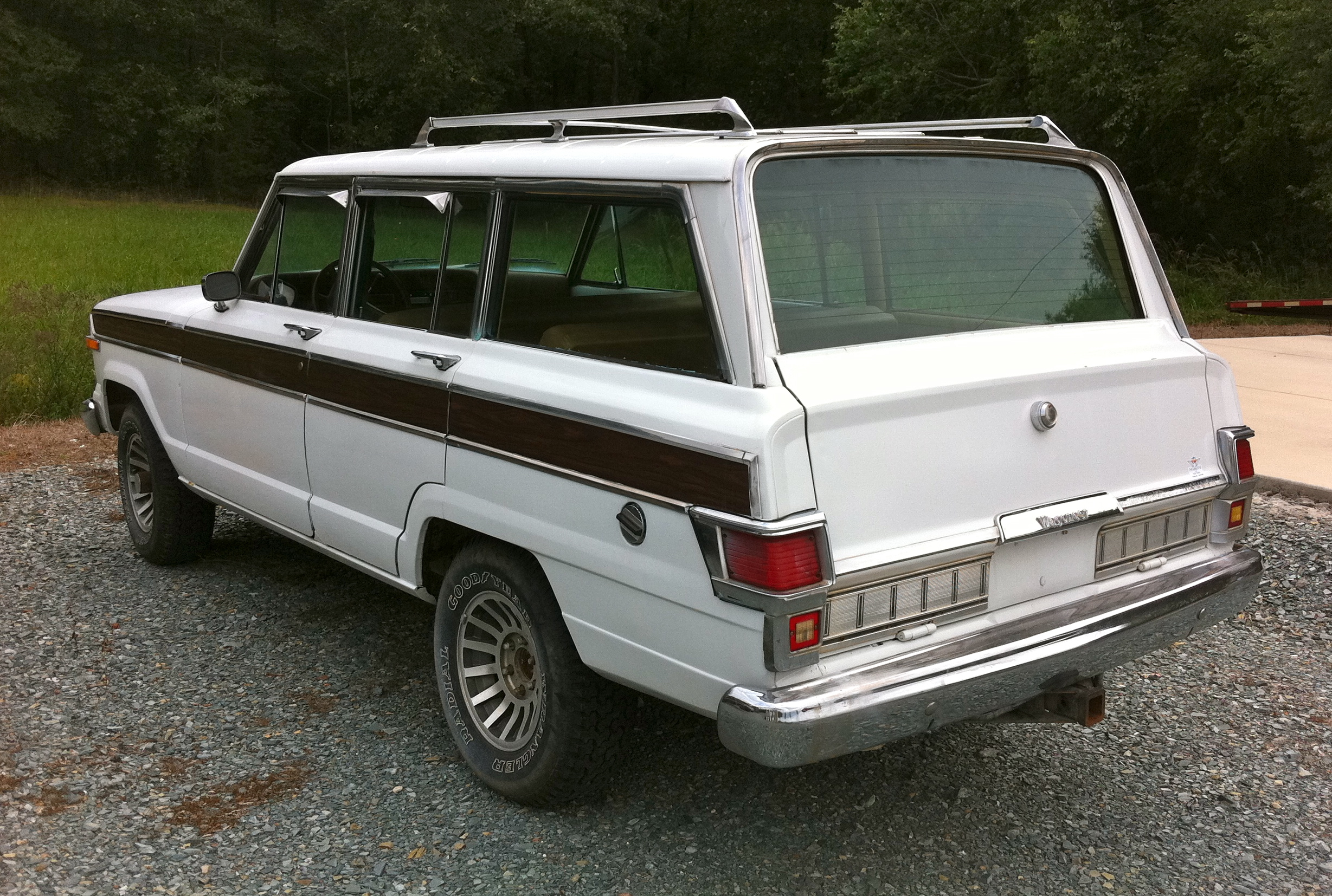 1979 Jeep (SJ) Wagoneer SUV-- built by American Motors Corporation (AMC).